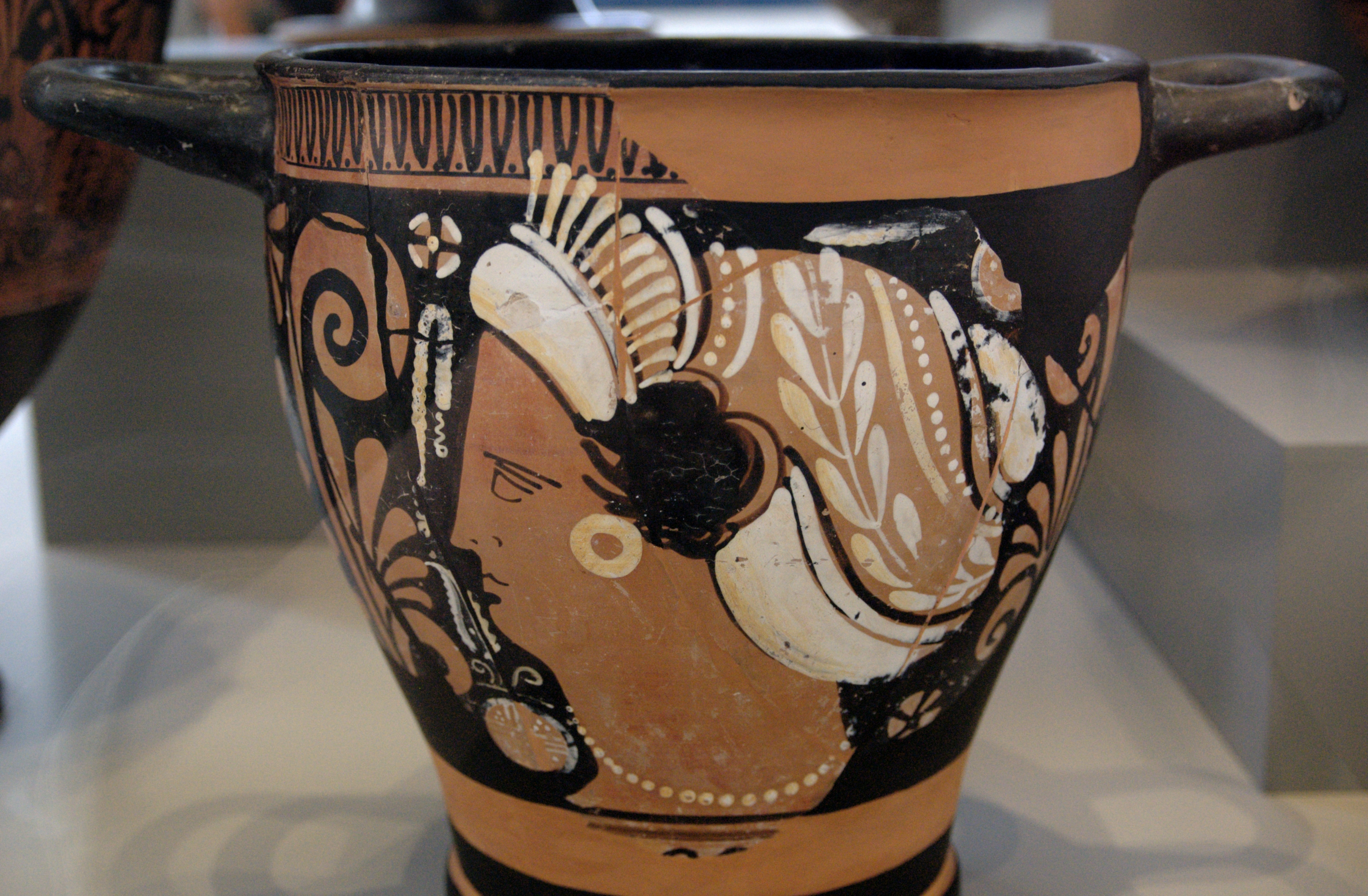 Woman head. Apulian red-figure skyphos, ca. 340 BC.